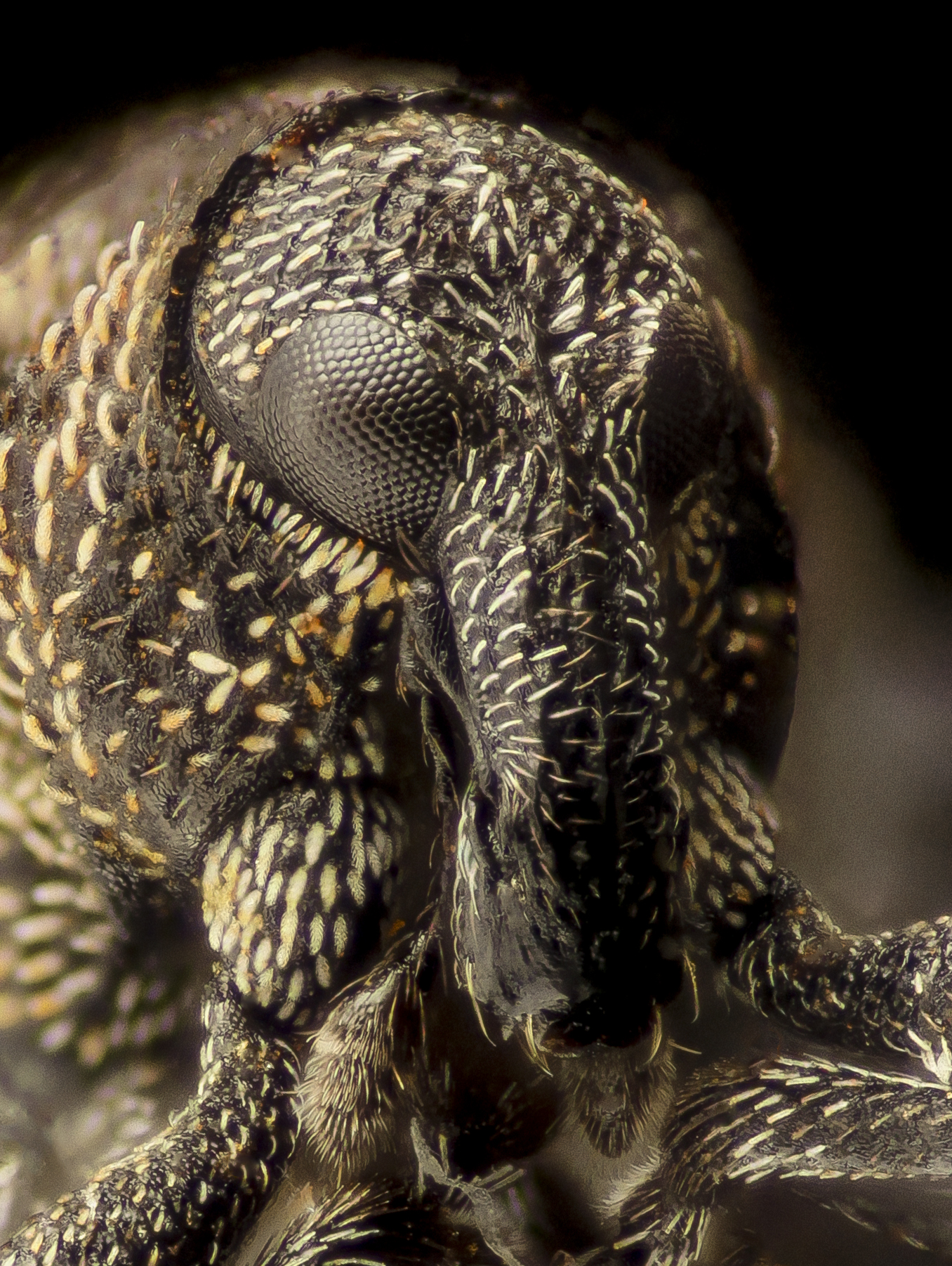 Mile-a-minute weevil, Rhinoncomimus latipes, this weevil has been brought into North America to contol Polygonum perfoliatum, the mile-a-minute weed. Bob Trumble from Maryland's Department of Agriculture dropped off a few of these minute (about 1.5mm) babies and we photographed them using out 10x lens set up. 13:37, 19 July 2015 (UTC)13:37, 19 July 2015 (UTC) 0 13:37, 19 July 2015 (UTC)13:37, 19 July 2015 (UTC) All photographs are public domain, feel free to download and use as you wish. Photography Information: Canon Mark II 5D, Zerene Stacker, Stackshot Sled, 200mm Pentax-m with Nikon 10X infinity microscope objective lens mounted on front , Twin Macro Flash in Styrofoam Cooler, F5.6, ISO 100, Shutter Speed 200 Love for Other Things It’s easy to love a deer But try to care about bugs and scrawny trees Love the puddle of lukewarm water From last week’s rain. Leave the mountains alone for now. Also the clear lakes surrounded by pines. People are lined up to admire them. Get close to the things that slide away in the dark. Be grateful even for the boredom That sometimes seems to involve the whole world. Think of the frost That will crack our bones eventually. - Tom Hennen You can also follow us on Instagram account USGSBIML Want some Useful Links to the Techniques We Use? Well now here you go Citizen: Basic USGSBIML set up: USGSBIML Photoshopping Technique: Note that we now have added using the burn tool at 50% opacity set to shadows to clean up the halos that bleed into the black background from "hot" color sections of the picture. PDF of Basic USGSBIML Photography Set Up: ftp://ftpext.usgs.gov/pub/er/md/laurel/Droege/How%20to%20Take%20MacroPhotographs%20of%20Insects%20BIML%20Lab2.pdf Google Hangout Demonstration of Techniques: or Excellent Technical Form on Stacking: Contact information: Sam Droege 301 497 5840